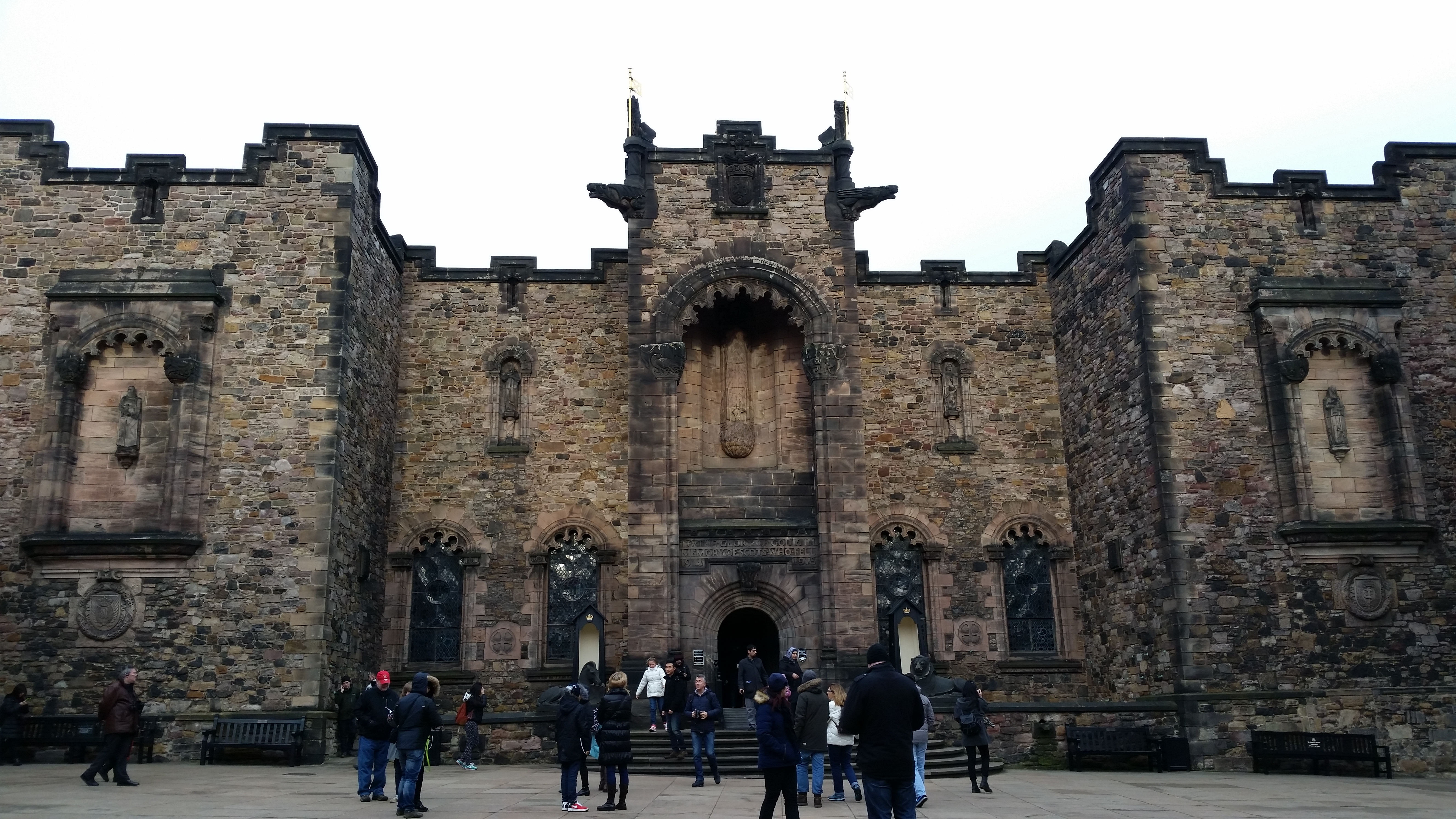 Edinburgh Castle Castlehill, Edinburgh EH1 2NG